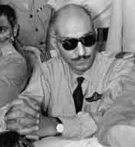 Cropped picture showing Egyptian military and government figure Gamal Salem at an outdoor meeting of the Revolutionary Command Council soon after taking part in the Egyptian Revolution of 1952